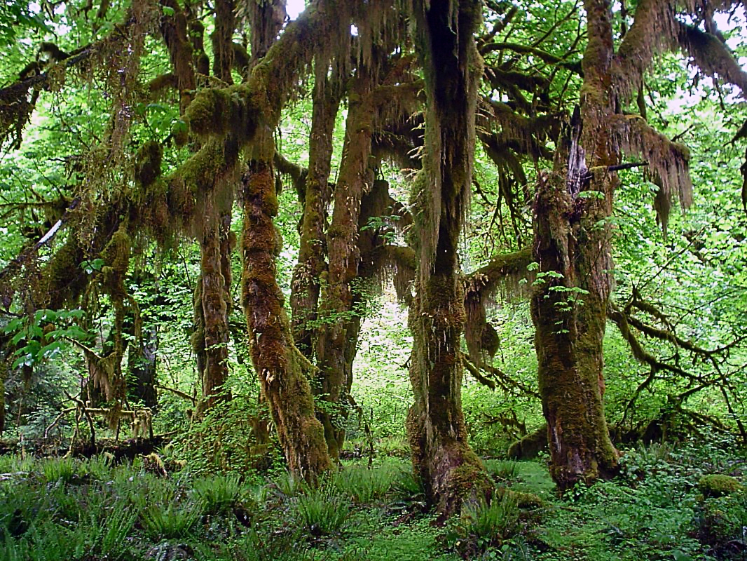 Maples in Olympic National Park's Hoh Rain Forest. Photo by Kevin Muckenthaler